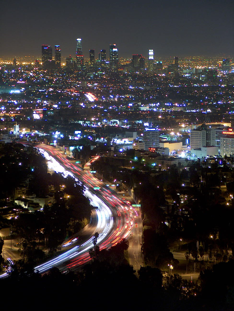 Los Angeles skyline taken from Mulholland drive by Eino Mustonen. Note the intense skyglow from the streetlighting.